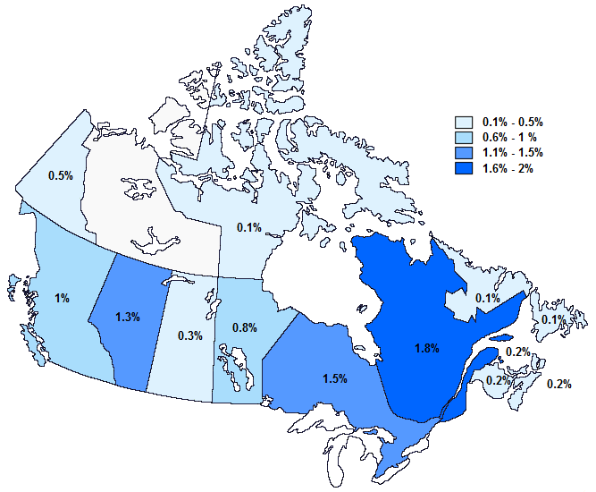 Spanish in Canada.